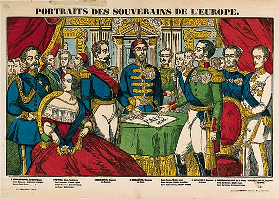 The congress of Paris, 1856. Portraits of the sovereigns of Europe. Imagerie Pellerin à Épinal. (Bibliothèque nationale de France, Paris.)